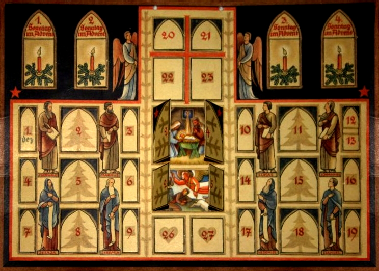 The mystery of Christmas - advent calendar referring to the liturgical year from the first Sunday in Advent to Epiphany (artist: Paula Jordan)